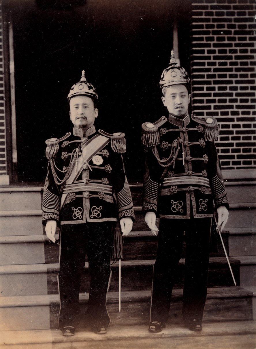 1=Korean Emperor Gojong and Crown Prince Yi Cheok1=대한제국 황제 고종과 황태자 이척